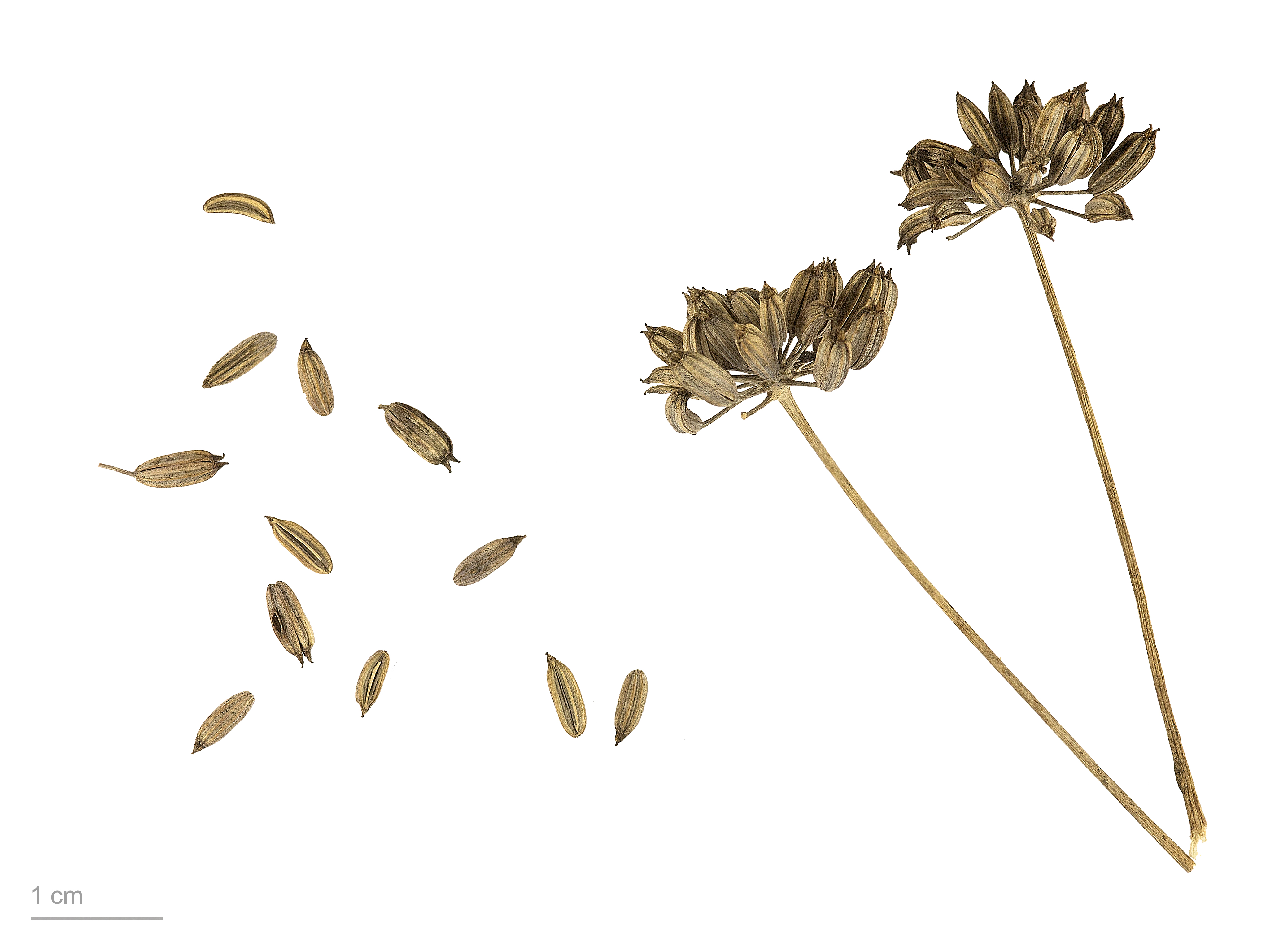 Fennel , fruits and seeds